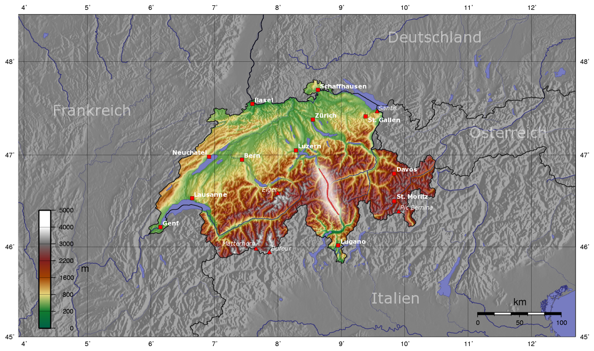 Source URL: Added the route for the "Gotthard-Basistunnel" railway tunnel